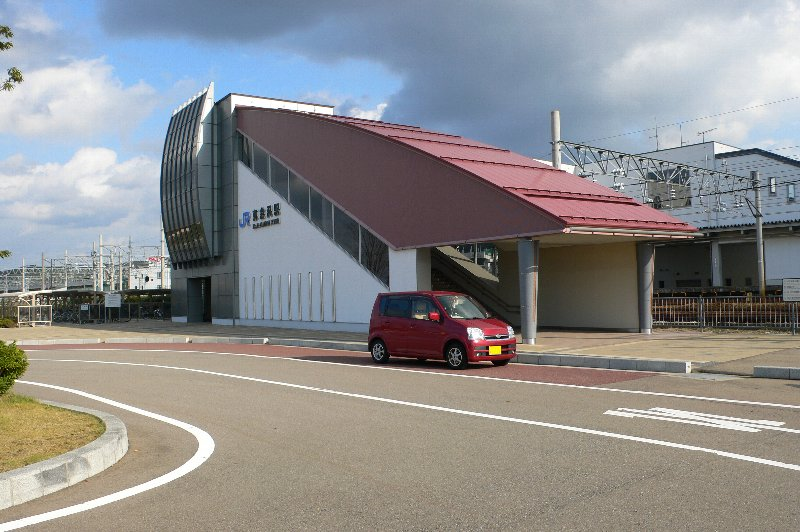 Higashi-Kanazawa St. West Gate, Ishikawa, Japan.